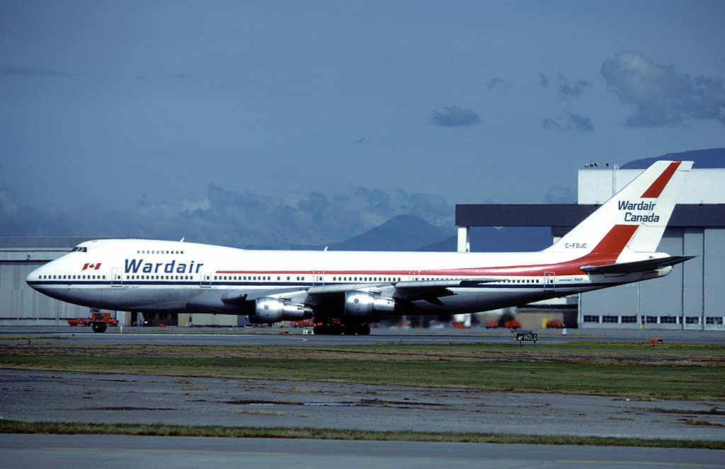 Wardair Boeing 747-1D1 C-FDJC at Vancouver Intnational Airport